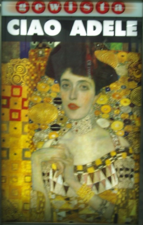 Poster saying goodbye to the painting "Adele Bloch-Bauer" in Vienna, February 2006